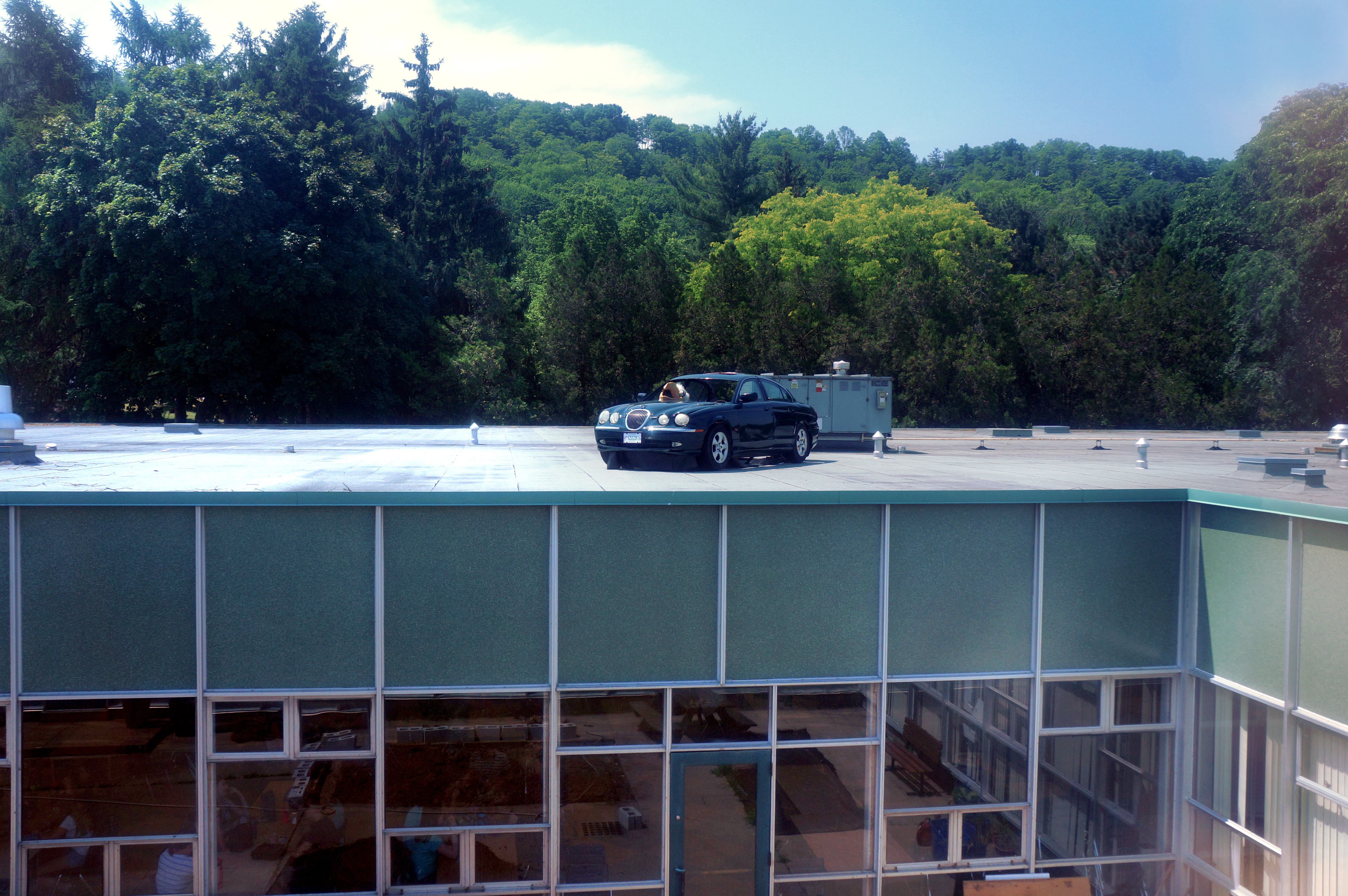 Photo of Jaguar S-Type on the roof of Grimsby Secondary School with the school mascot Baldwin the Eagle in the passengers seat.